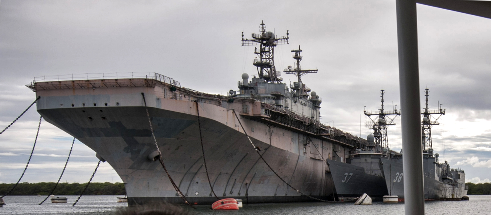 The U.S. Navy amphibious assault ship USS Tarawa (LHA-1), and the guided missile frigates USS Crommelin (FFG-37) and USS Curts (FFG-38) laid up at the Naval Inactive Ship Maintenance Facility Pearl Harbor, Hawaii (USA), in 2013.